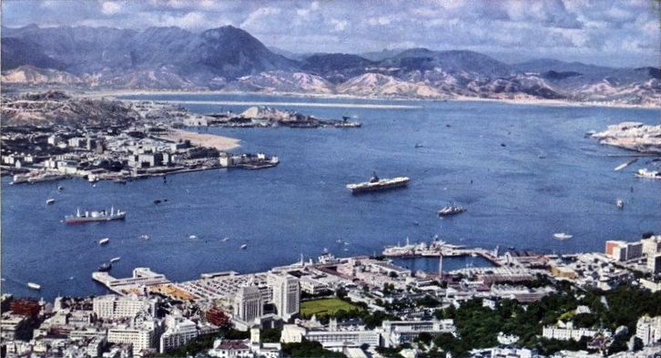 The U.S. Navy aircraft carrier USS Ticonderoga (CVA-14) at Hong Kong. The Ticonderoga, with assigned Carrier Air Group 5 (CVG-5), was deployed to the Western Pacific from 5 March to 11 October 1960.